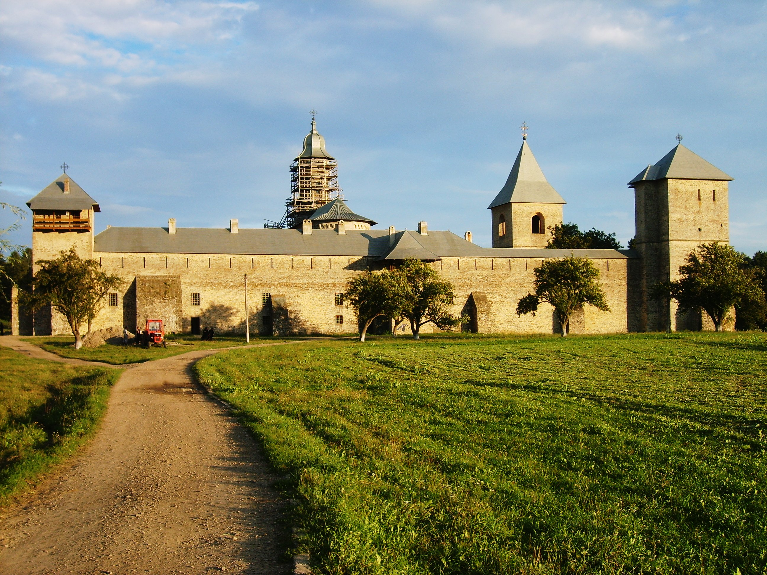 View of the Dagomirna monastery during the sunset